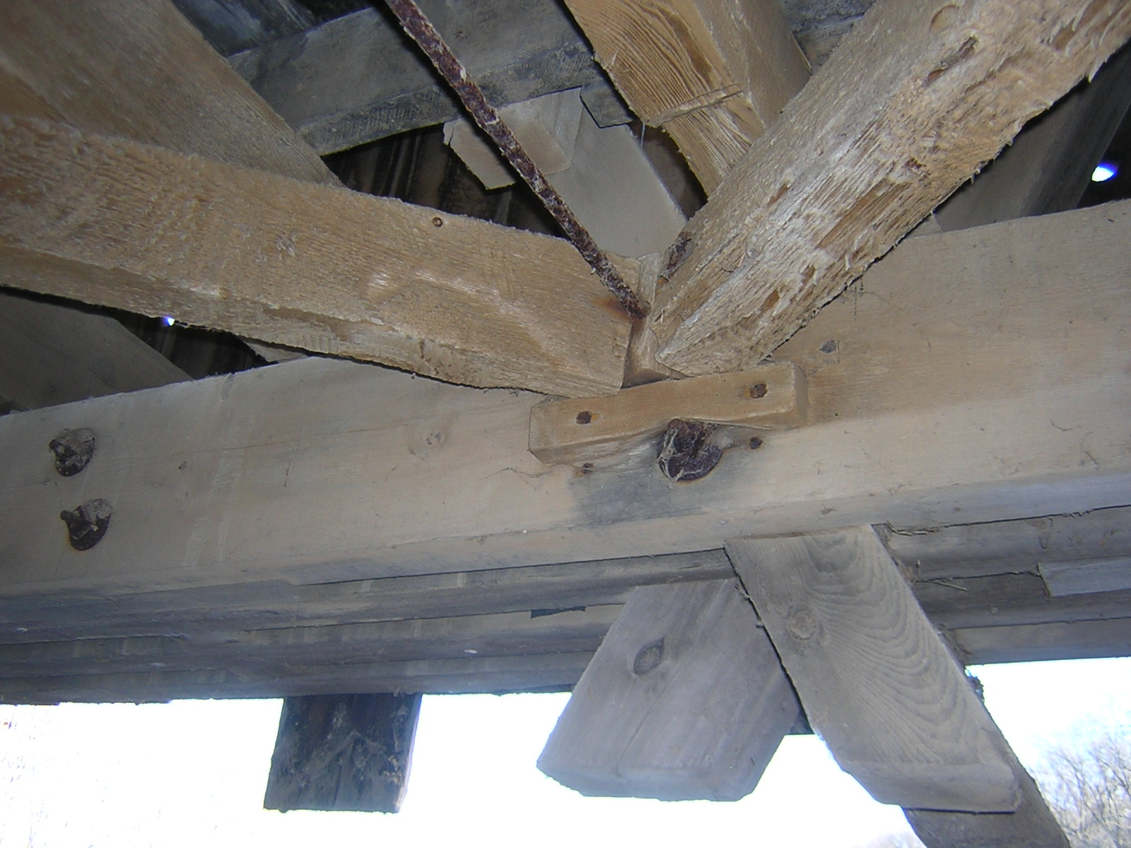 Underside view of Whites Bridge near Smyrna, Michigan, on the Flat River, showing brown truss detail underneath the roadway. Original construction used little metal... bolts are added later.